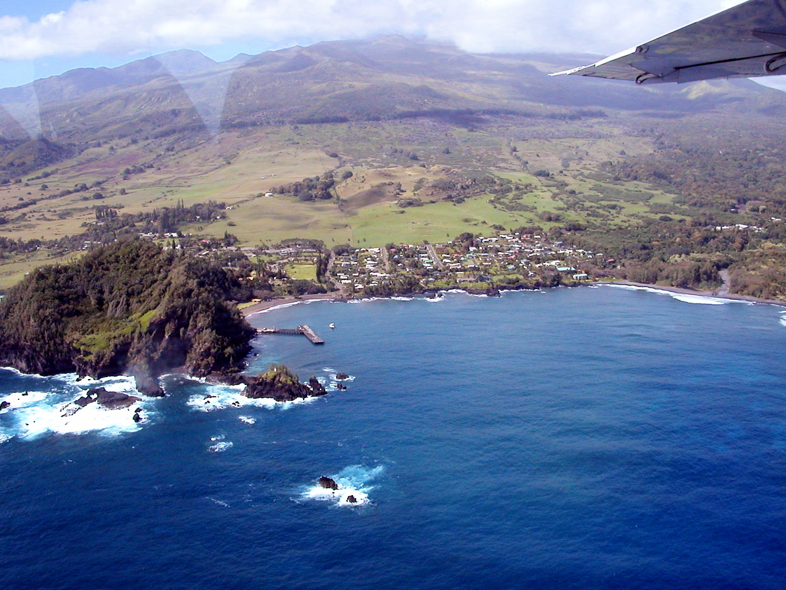 Photo of Hana, Maui, State of Hawaii. Photo by Kanoa Withington 2006